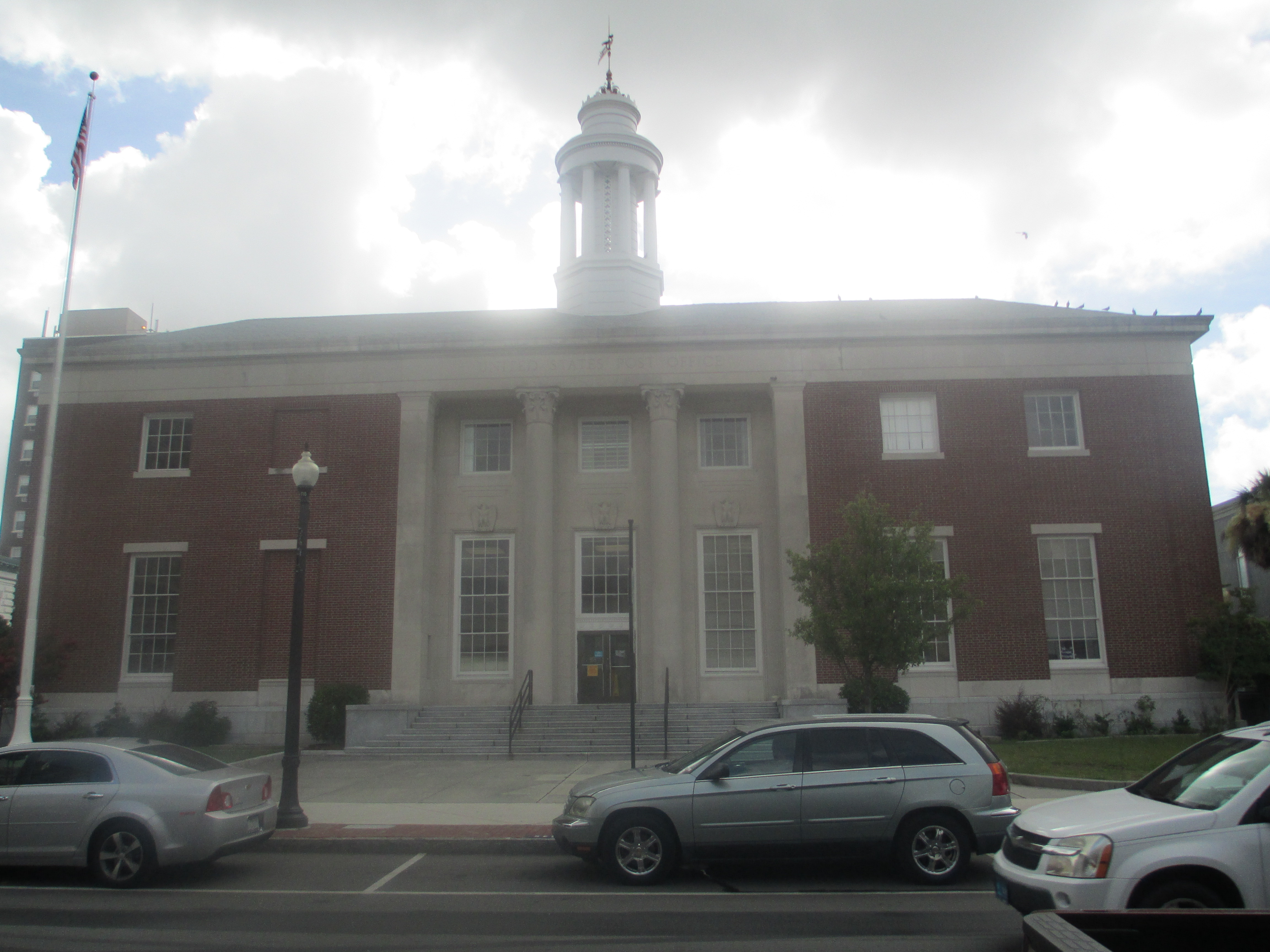 U.S. Post Office, Wilmington, NC